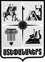 Stepanakert coat of arms